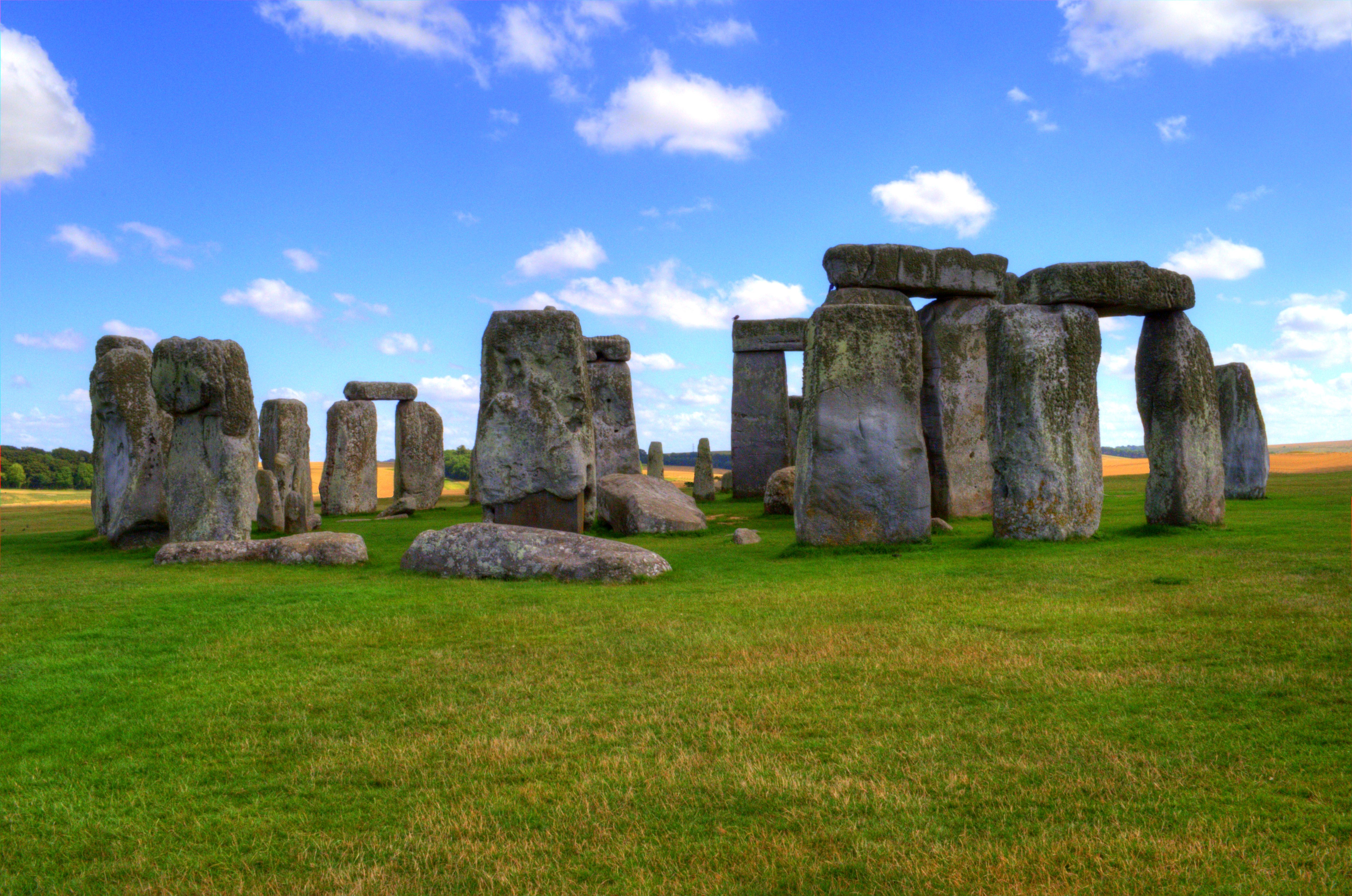 Stonehenge, Salisbury, UK